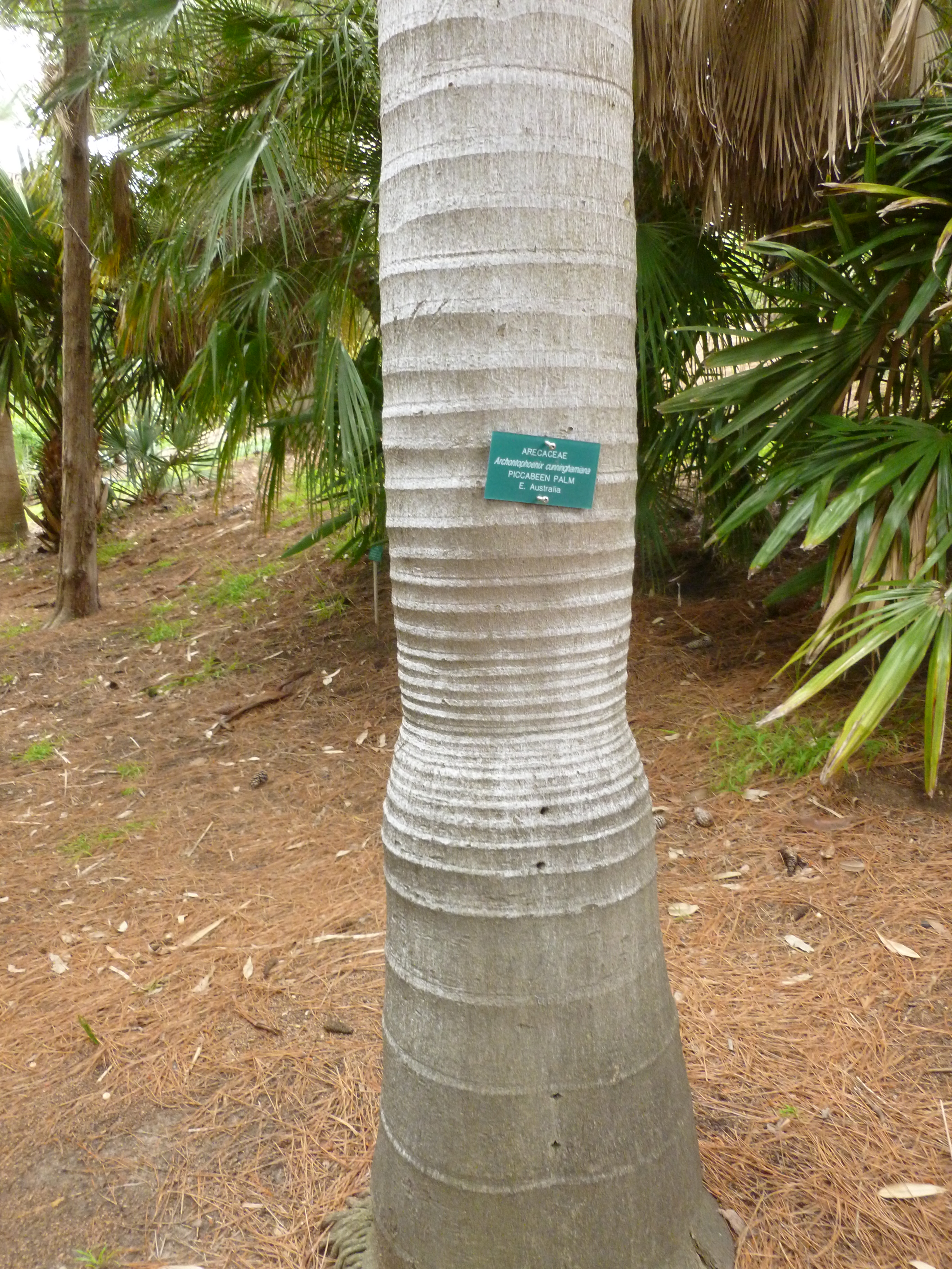 Trunk With Nameplate in Mildred E. Mathias Botanical Garden, Los Angeles, California